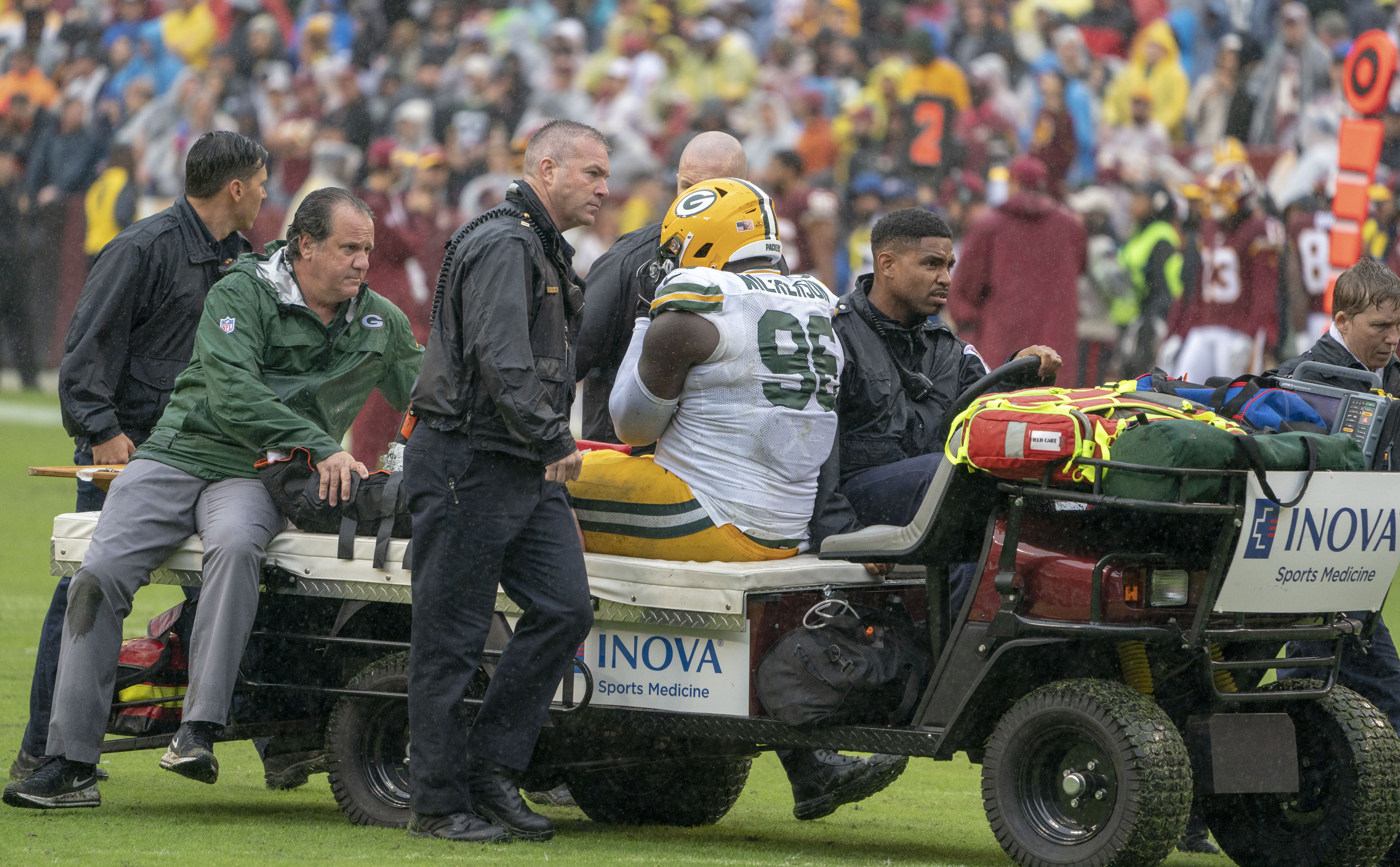 Packers at Redskins 09/23/18